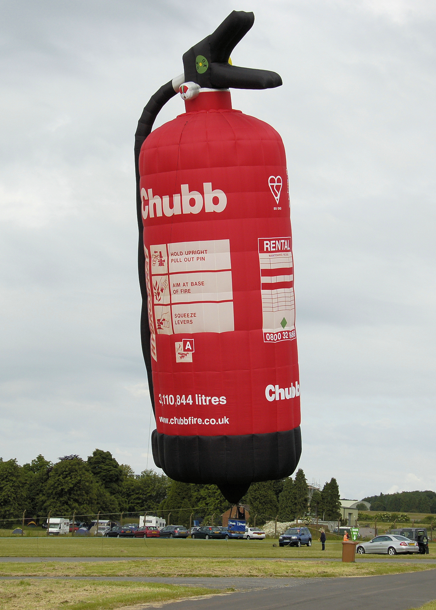 A special-shape hot air balloon (Chubb fire extinguisher) at Kemble Air Day 2008, Kemble Airport, Gloucestershire, England.